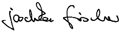 Treaty of Nice - Final Act Signature by German representatives